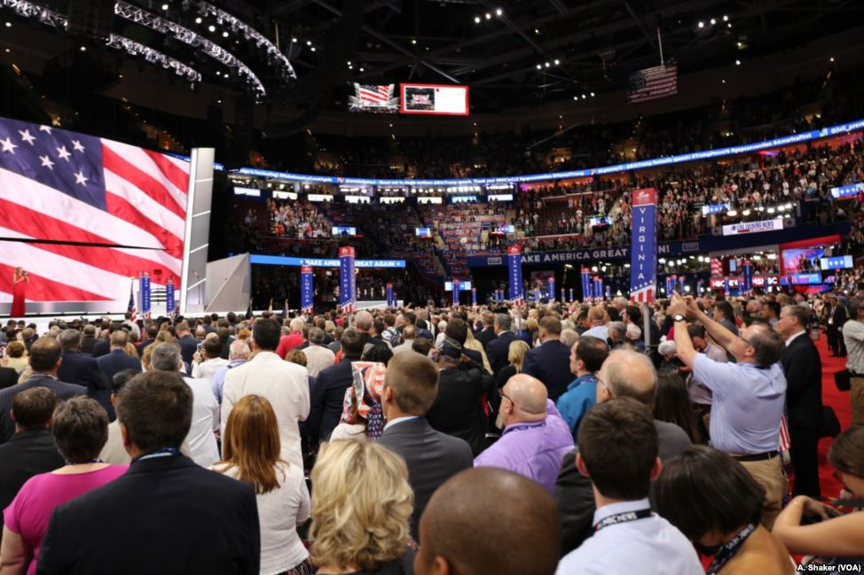 Delegates at the Republican National Convention, in Cleveland, July 21, 2016.